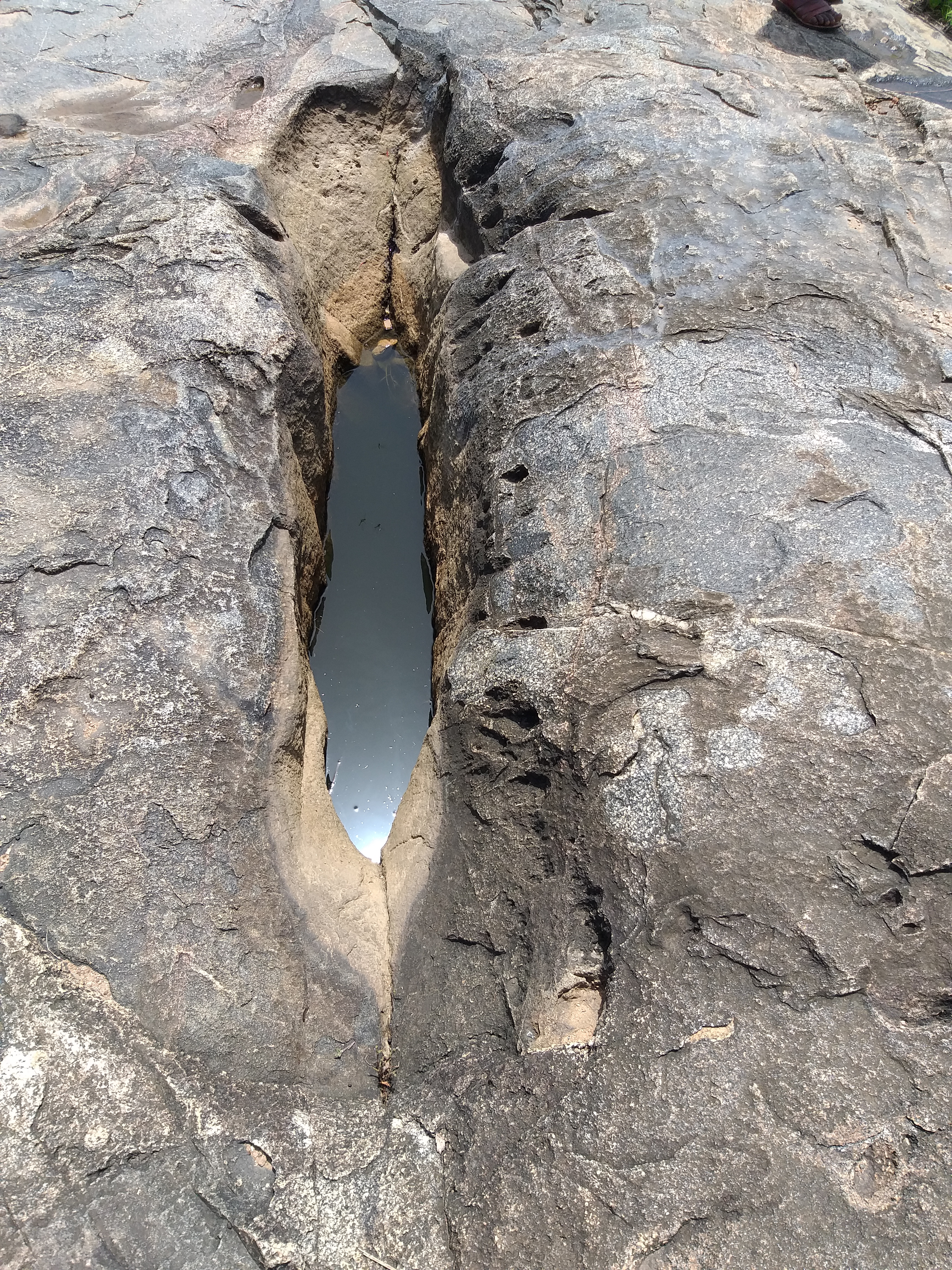 A spring at the Pikworo slave camp which served as a major source of water for drinking and for cooking at the Camp. It is known till date that the spring never runs dry. hence there was always supply of water to the slaves.